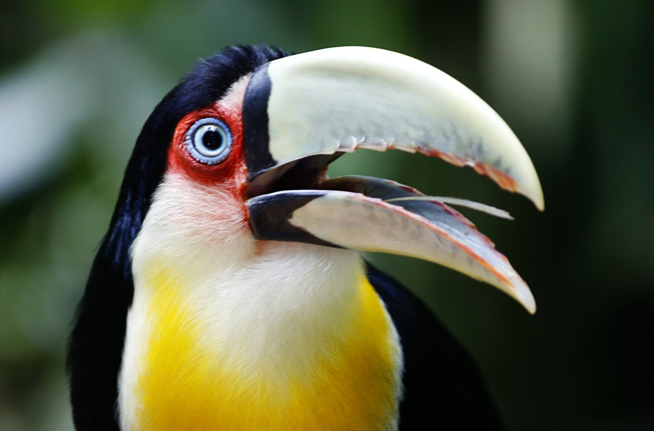 Red-breasted Toucan (also known as the Green-billed Toucan) at Parque das Aves is situated in Foz do Iguaçu, Brazil.